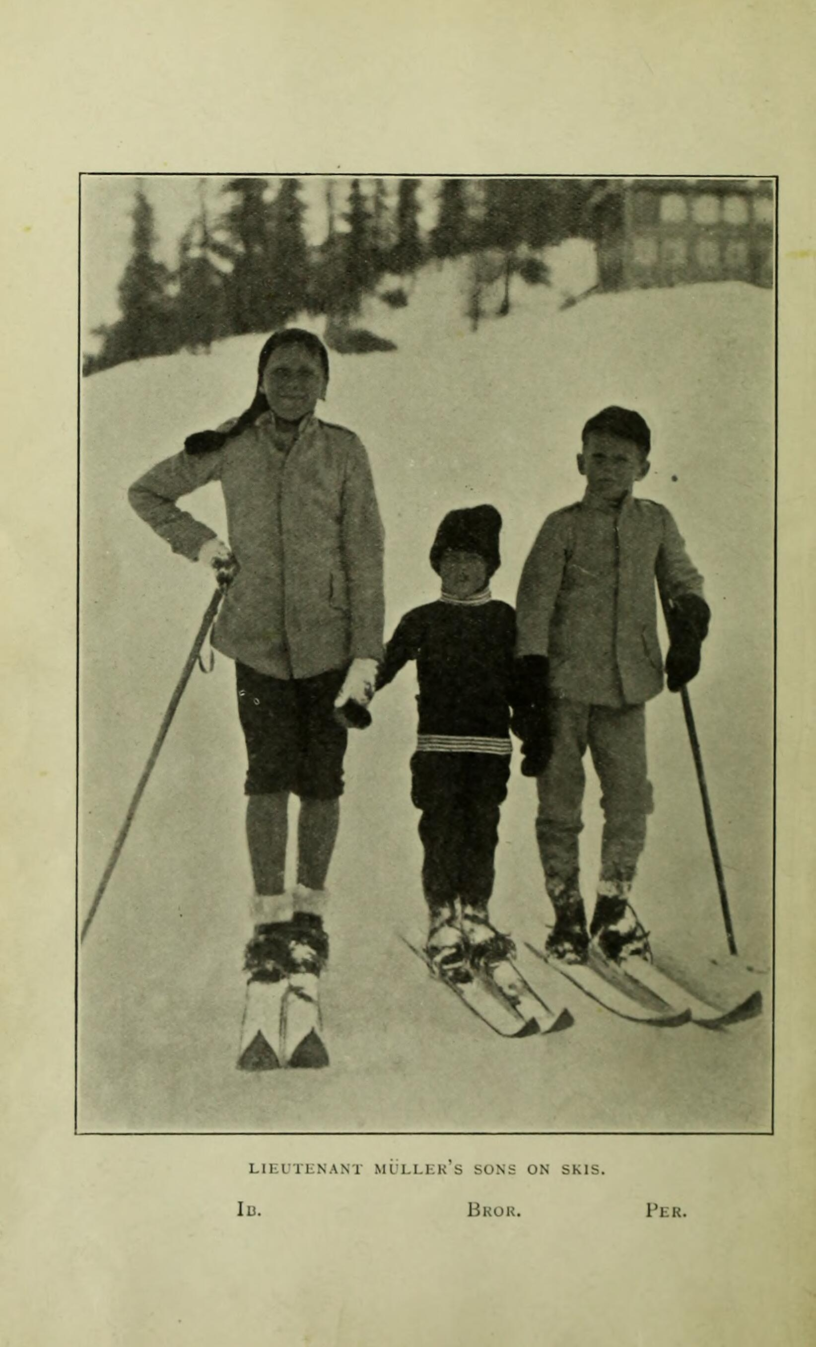 J.P. Muller's three sons, as featured in his book 'My System for Children'